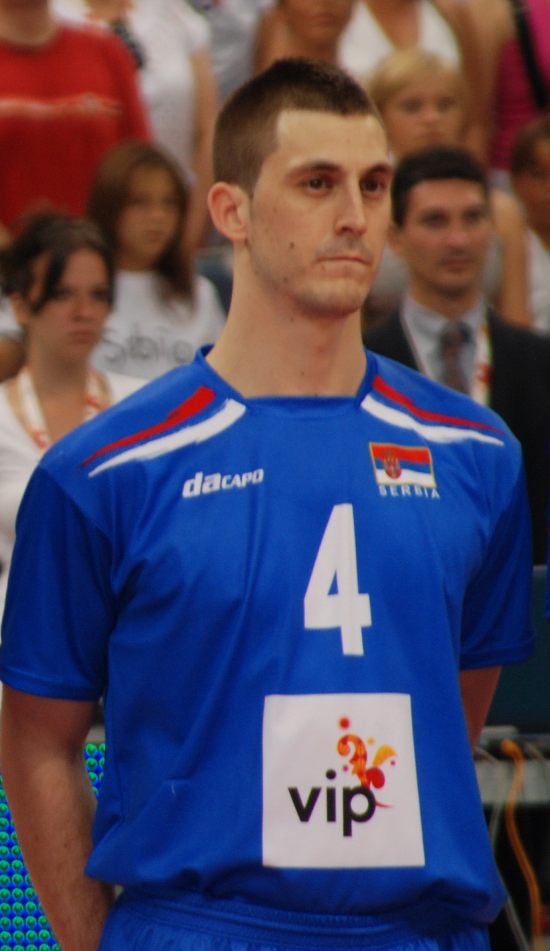 Bojan Janić is a Serbian volleyball player.